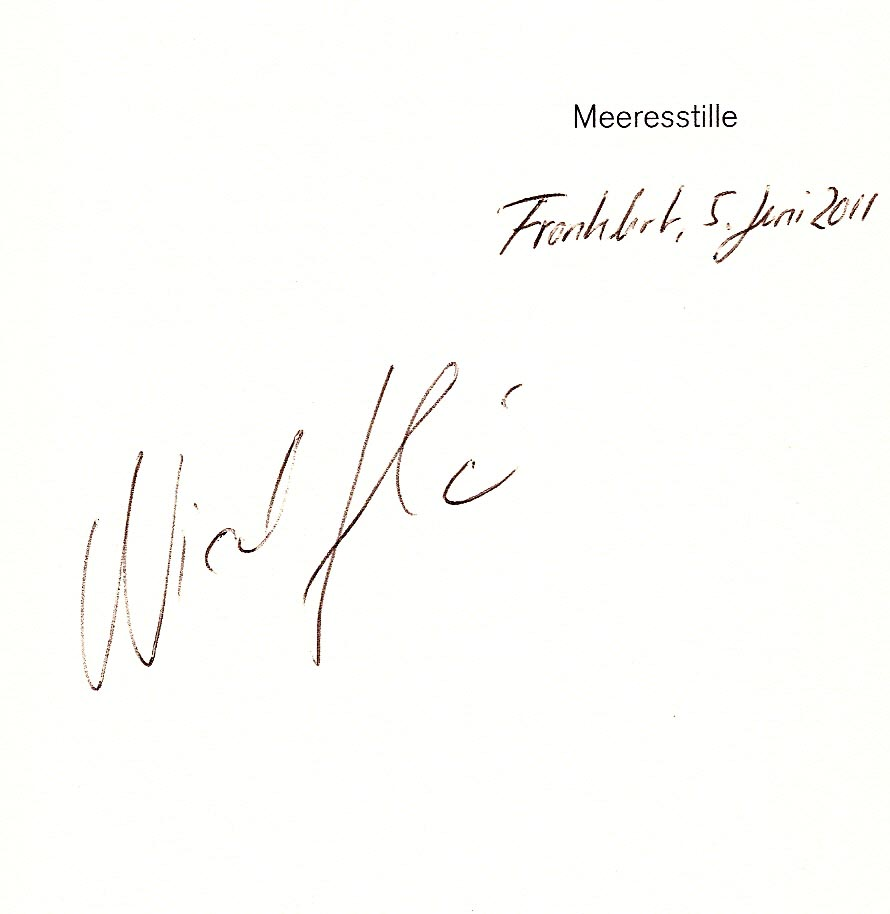 Autograph from Nicol Ljubic, German writer, 2011 in Frankfurt am Main, Germany.